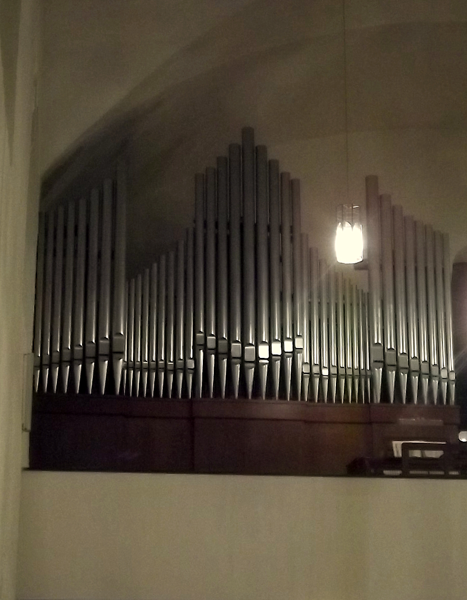 Haerpfer Pipe Organ of the Catholic church of Dirmingen, Saar